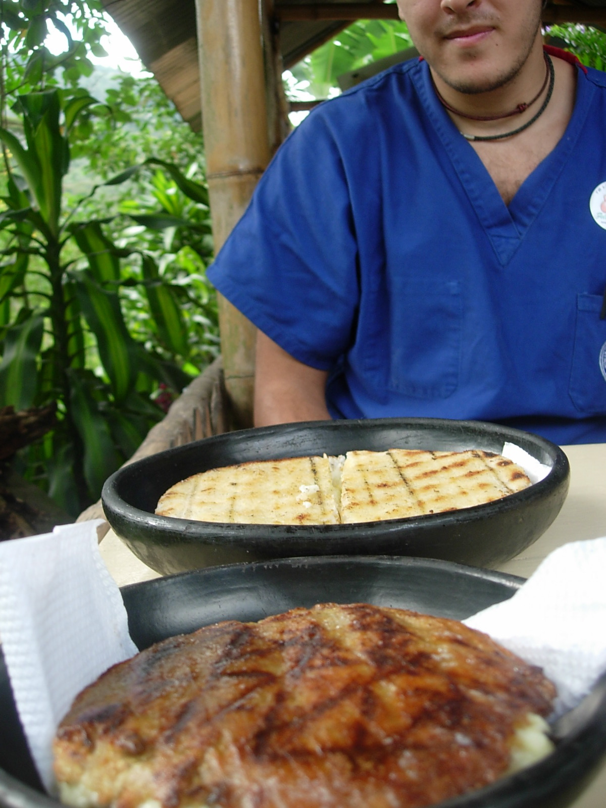 Colombian arepas: Choclo (front), Quesillo (back)